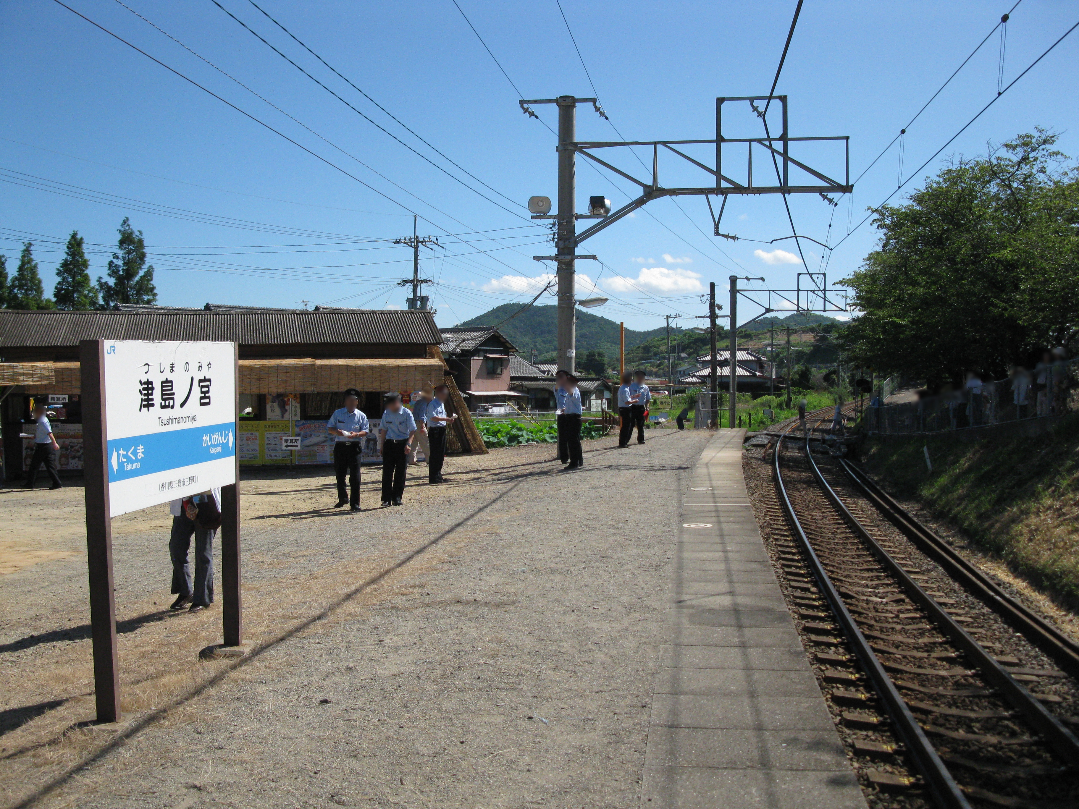 Tsushimanomiya Station platform (Shikoku Railway(JR Shikoku) Yosan Line)